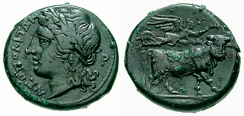 Campania, Neapolis. Circa 275-250 BC. Æ Obol (6.41 g). Laureate head of Apollo left; P behind Man-headed bull standing right, being crowned by Nike who flies above; IS in exergue. SNG ANS 488 var. (O behind); Rutter, HN 589. brown patina, some encrustation. From the David Freedman Collection.